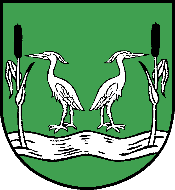 Coat of arms of the municipality Rumohr in Schleswig-Holstein, Germany.